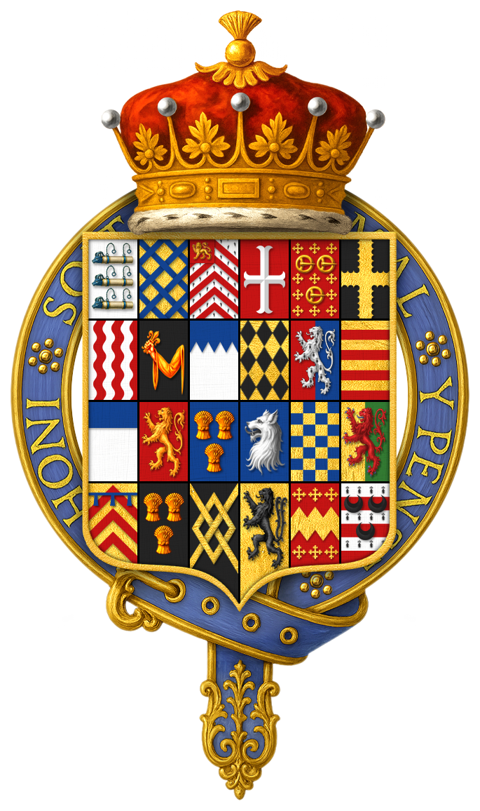 Coat of arms of Sir Robert Bertie, 1st Earl of Lindsey, KG QUARTERS: 1. Bertie; 2. Willoughby; 3. Orreby; 4. Beke; 5. Rosceline; 6. Ufford 7. Valoines; 8. De Crec; 9. Glanville; 10. Le Blund; 11. Norwich; 12. Fitzalan, of Bedale 13. Fitzalan, of Clun; 14. Aubigny; 15. Earldom of Chester; 16. Lupus; 17. Warren; 18. Marshal 19. Clare; 20. MacMorrough; 21. Maltravers; 22. Welles; 23. Dengaine; 24. Waterton